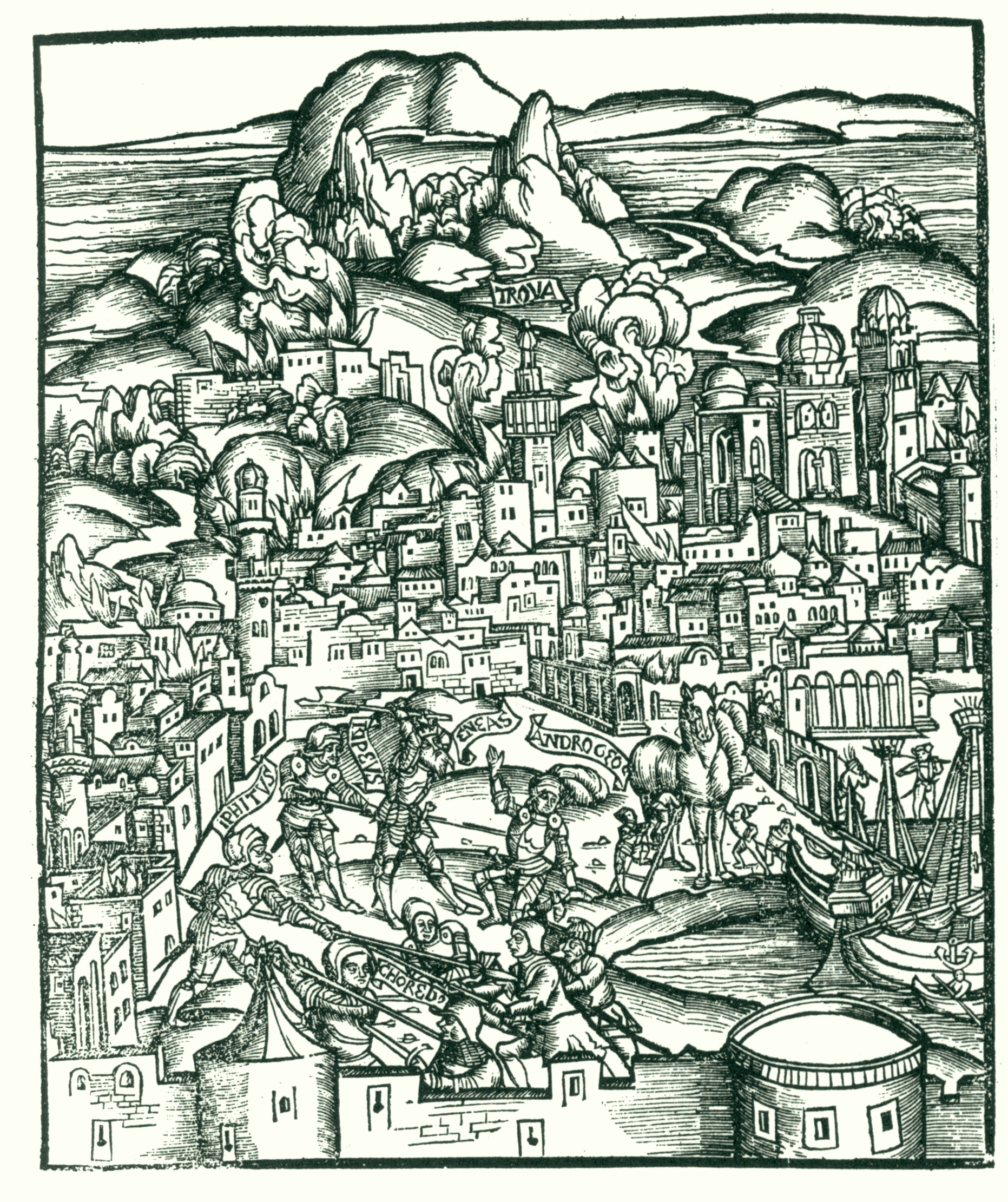 Illustration of Vergil Aeneid 2.339-401, printed by Johannes Grüninger (Strassburg, 1502).